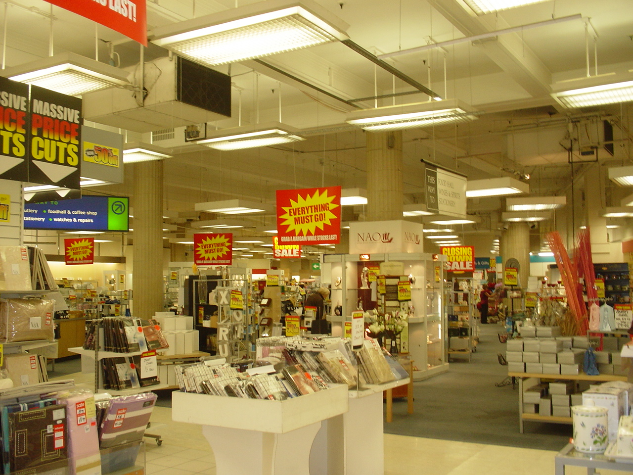 Closing down sale during the final weeks of business at Lewis's Department Store, Liverpool. Ground floor.